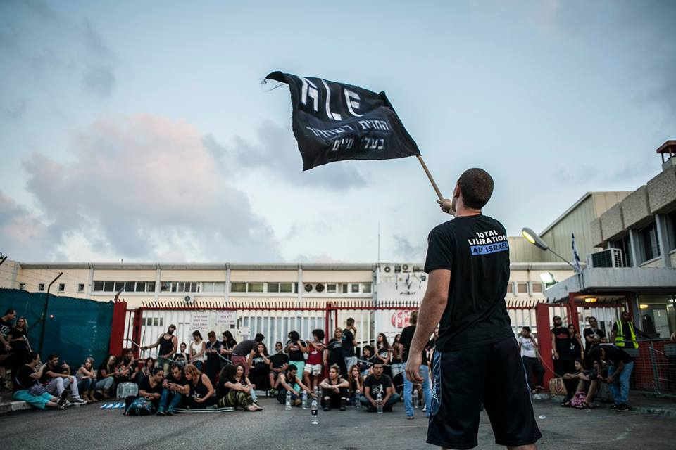 Animal Liberation Front activists chained to the fence of zoglobek slaughterhouse in Shlomi Israel, after publication of extrem cruelty